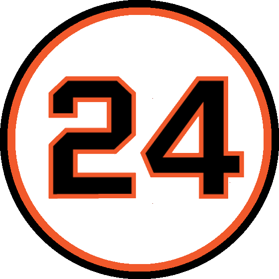 SF Giants retired number placard as shown inside stadium